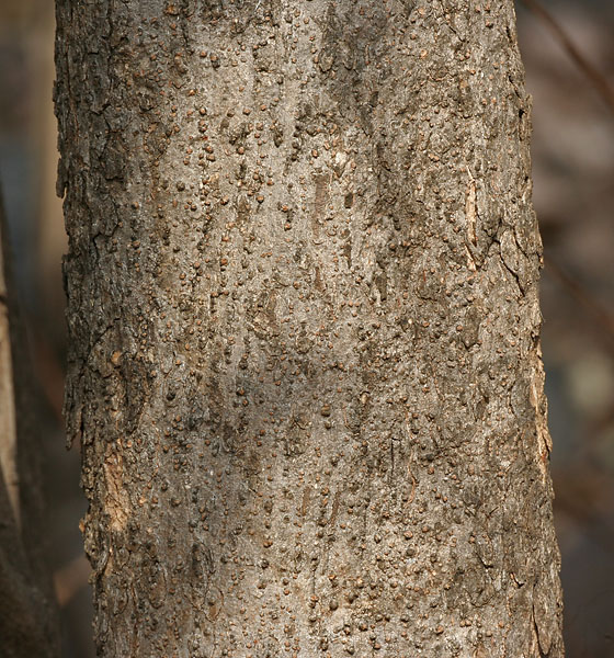 small-flowered ixora, torch tree, torchwood ixora, jilpai, kotagandhal, lohajangin, mashal-ka-jhar, goravi, koravi, kurati, soochimulla, goravikatagi, maakadi, raikura, nemali, nevali, culuntu, koran or koravi Ixora pavetta at Deer Park in Shamirpet, Rangareddy district, Andhra Pradesh, India.